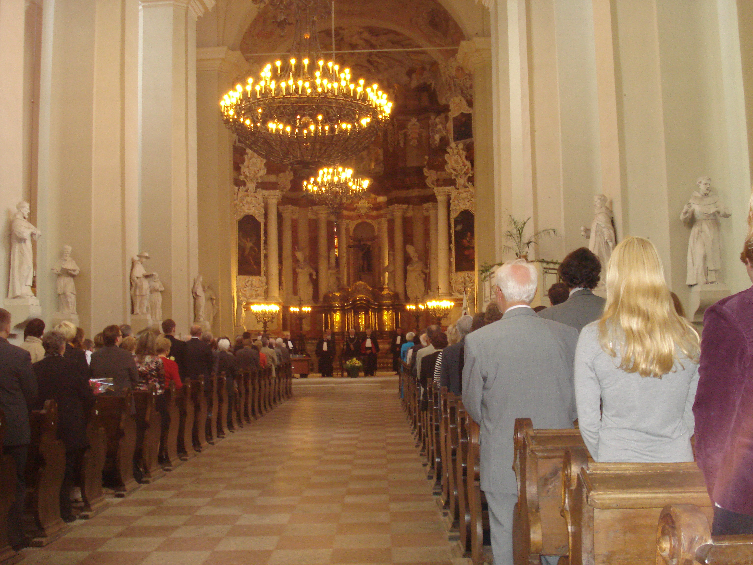 Finis Semestri in the Church of St. Johns (Vilnius). 2007